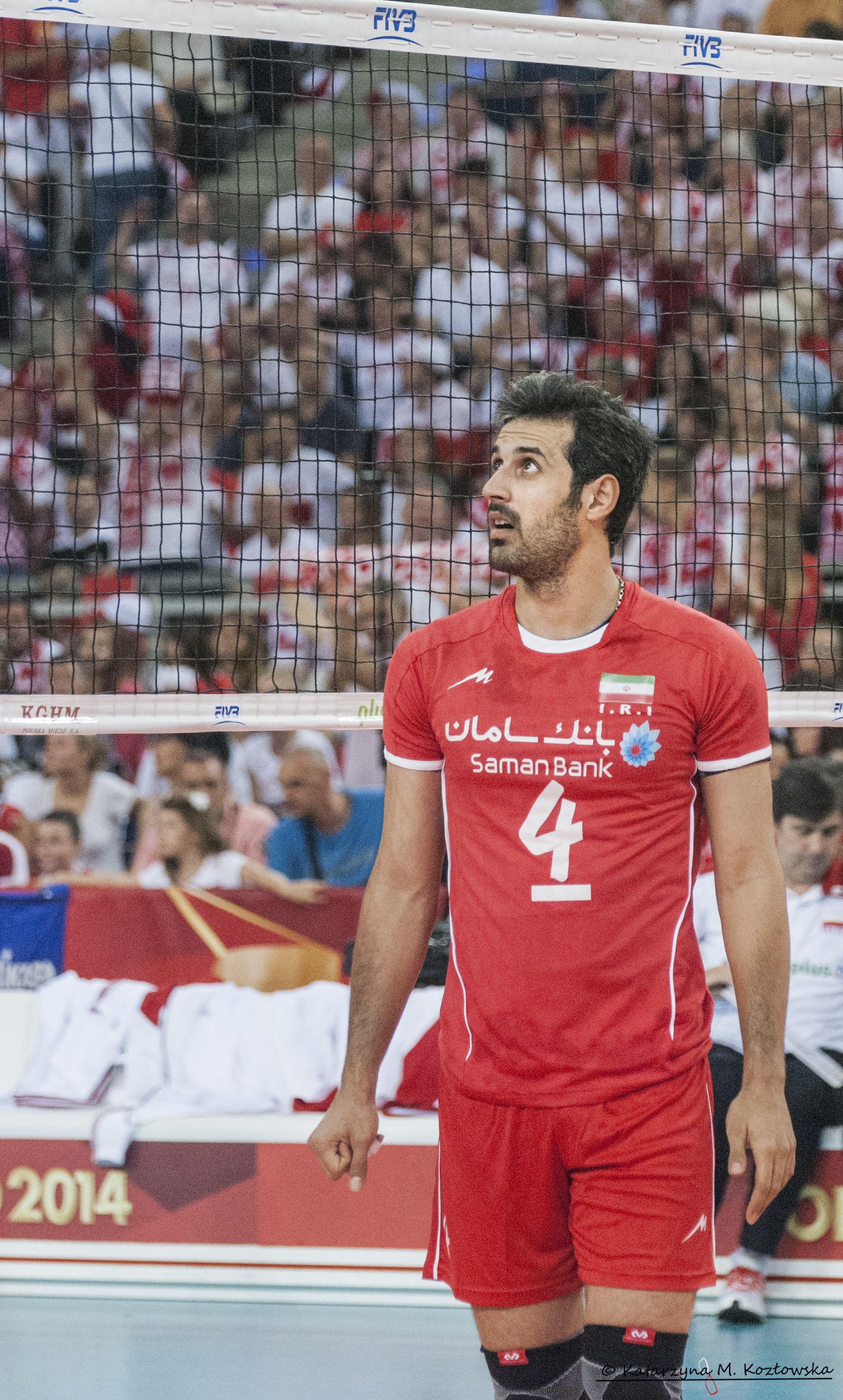 Saeid Marouf playing for Iran in 2014 FIVB Volleyball World Championship in Poland.